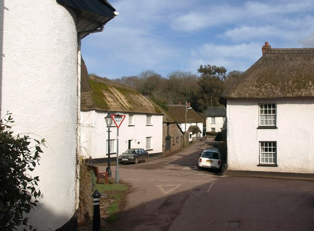 Coleford The crossroads in the centre of this pretty hamlet, consisting of many C17 cottages and other buildings; "Coleford is an unusually unspoilt and picturesque hamlet" . Across the road on the left is Browns Farm, formerly the Ship Inn . On the right is Corner Cottage .